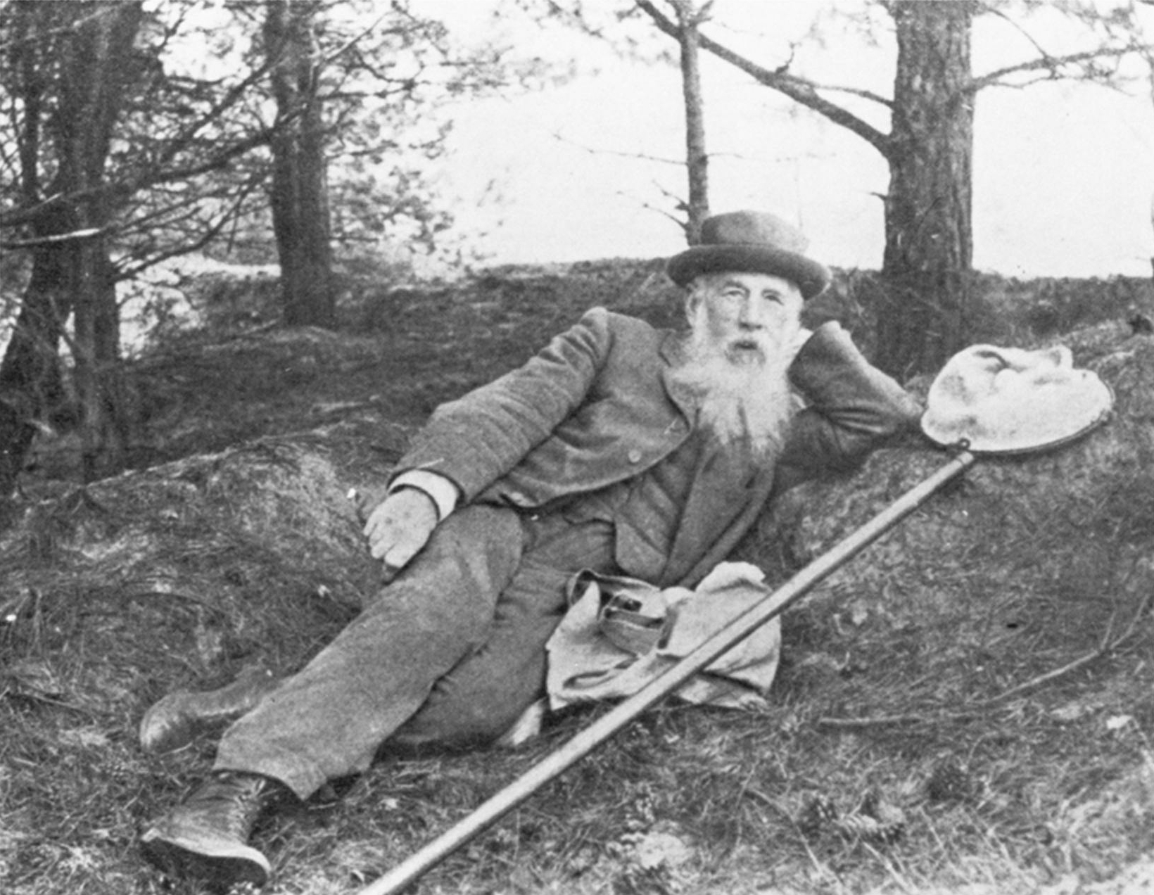 David Sharp in 1909